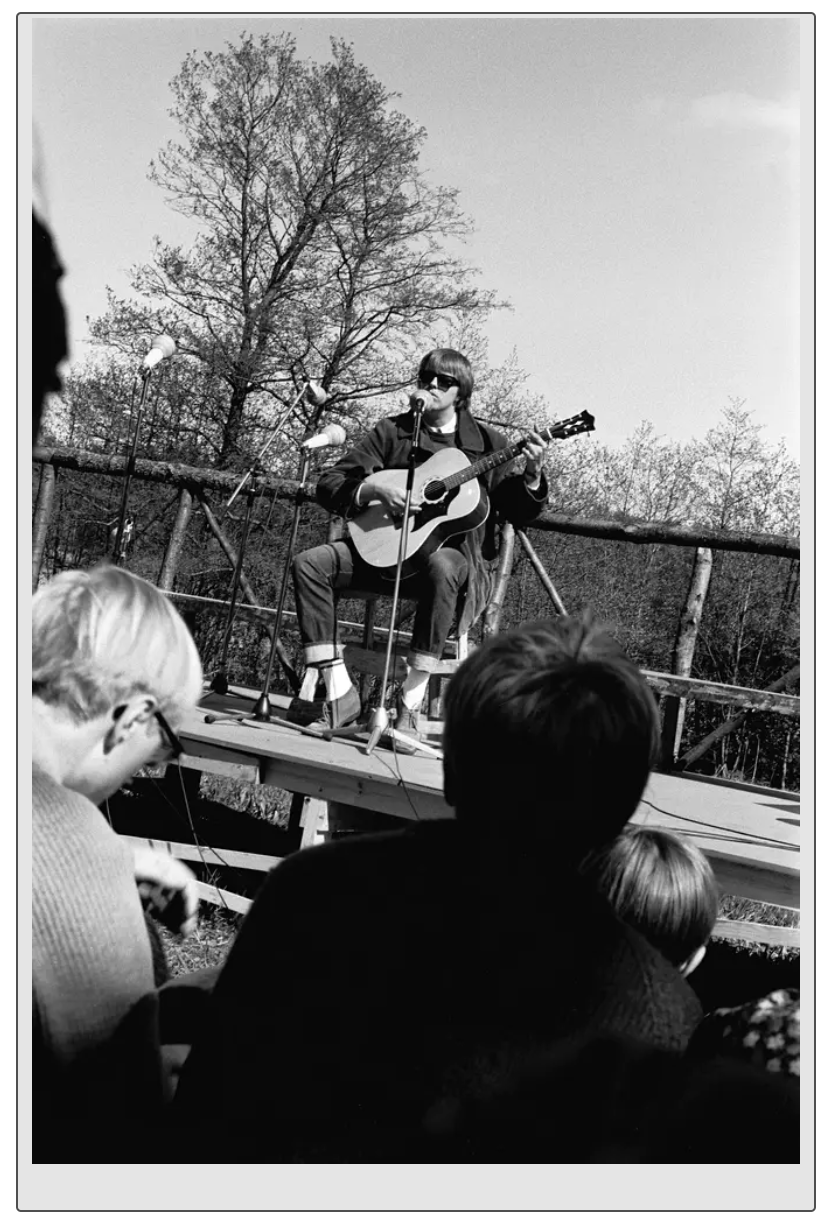 Finnish artist Hector performing in Sandvik 1966